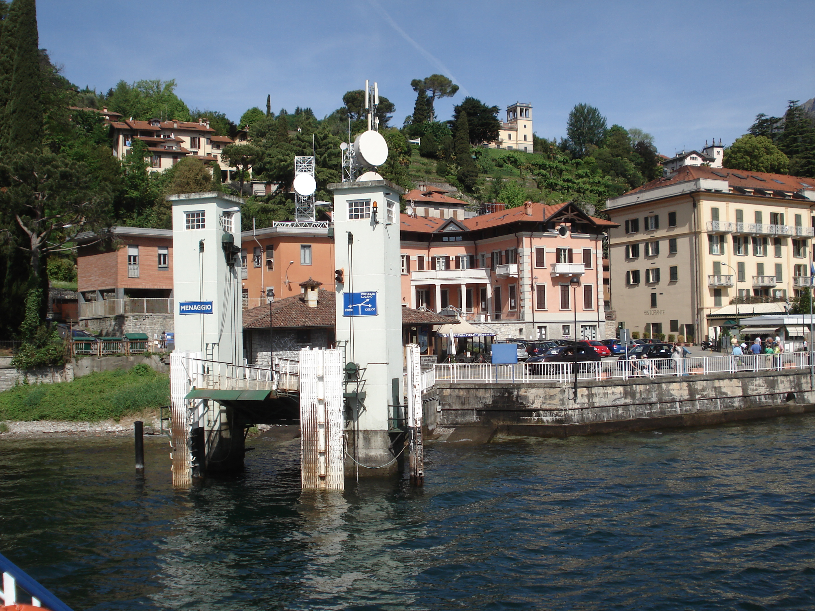 Lake Como, photo taken from ferry between Varenna and Menaggio.